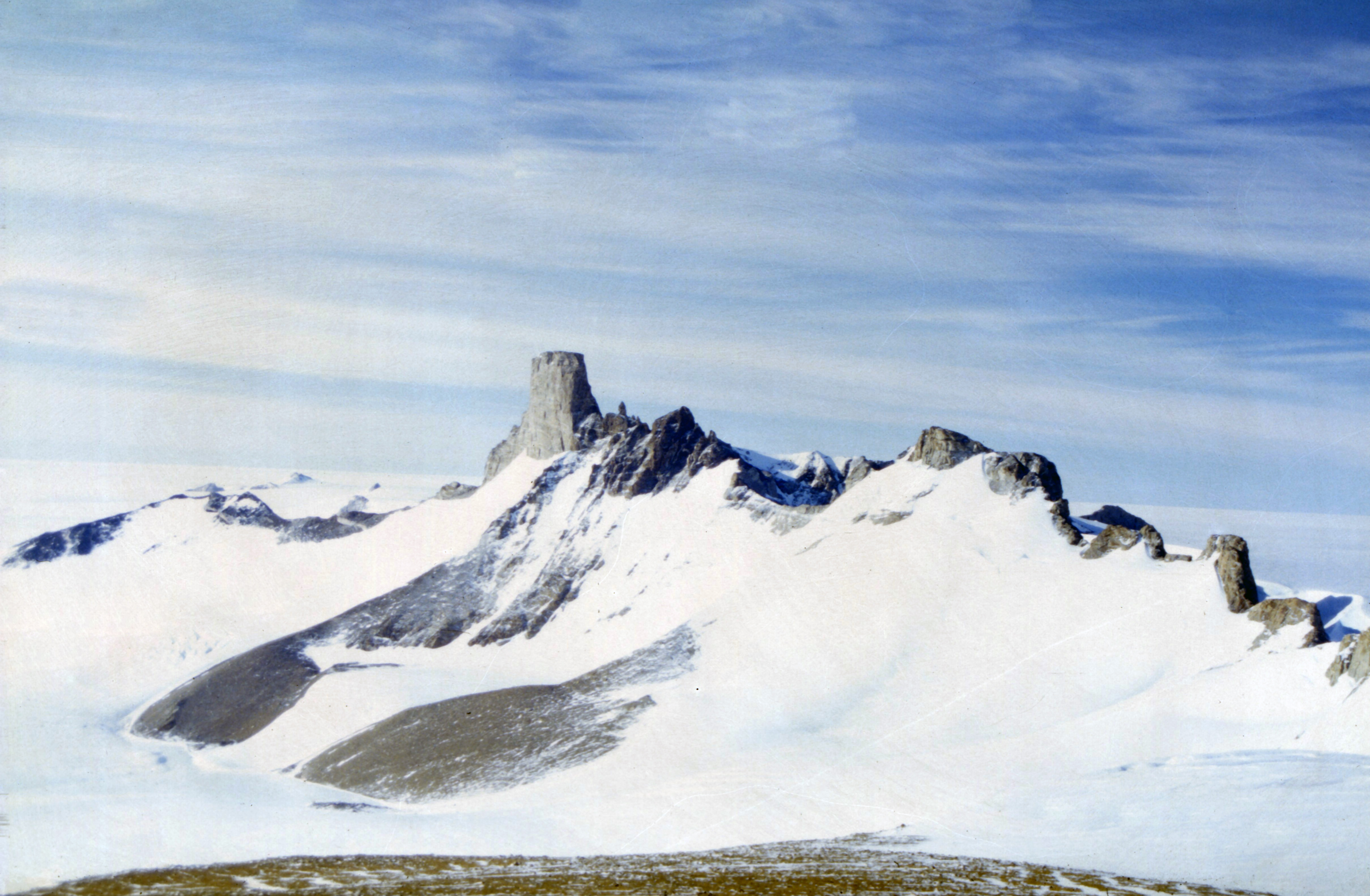 Northeastern part of the Mayrkette (Jutulsessen on Norwegian maps), Dronning Maud Land Antarctica, view from the Southwest